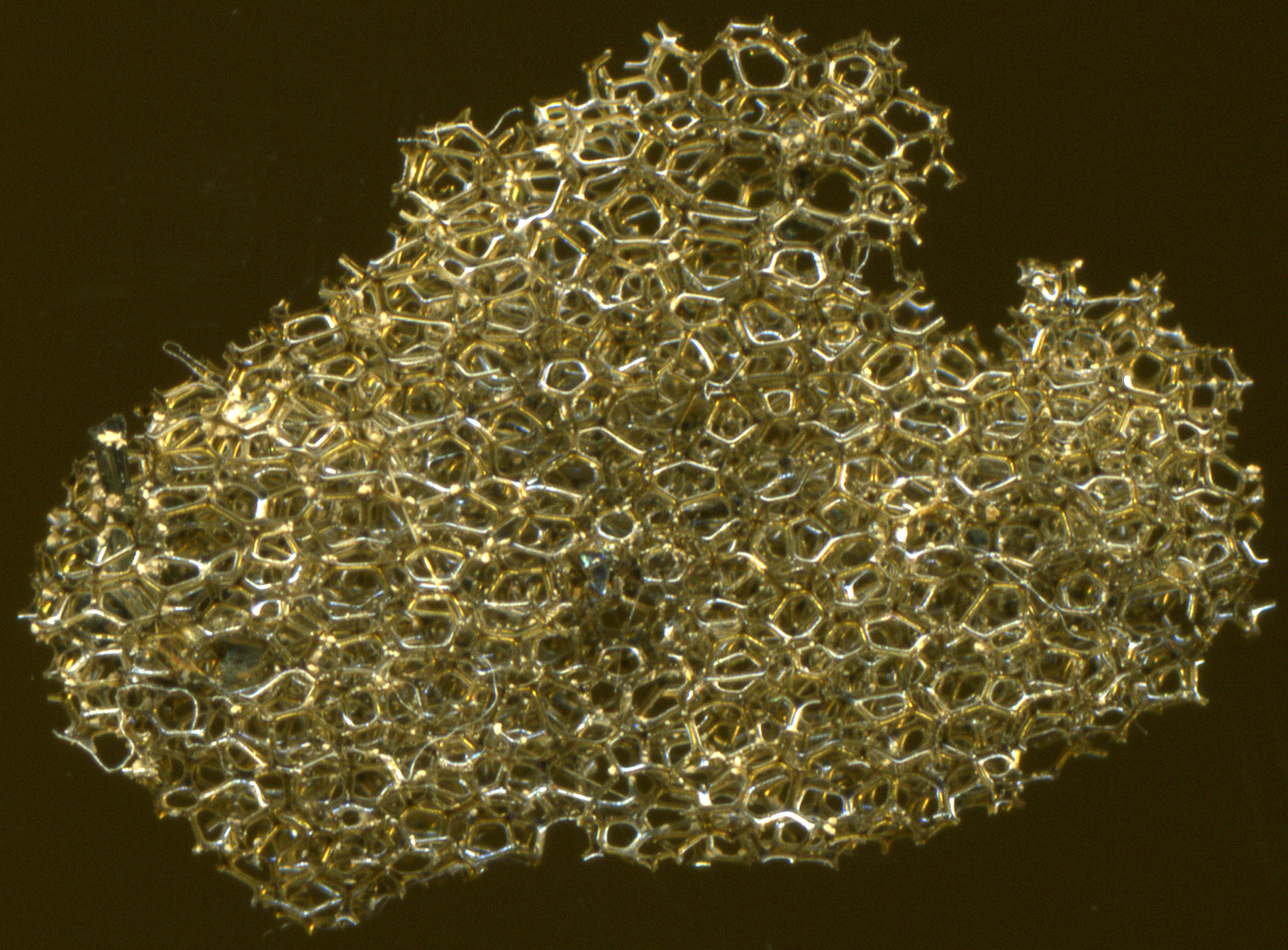 Reticulite from Kilauea volcano in Hawaii, USA. It is solidified lava that was erupted by a lava fountain at Kilauea's East Rift Zone. Reticulite is also known as thread-lace scoria. It is greenish-brown, highly vesiculated basaltic glass (sideromelane) and it has a complex three-dimensional honeycomb structure. This sample is 18 millimetres across.